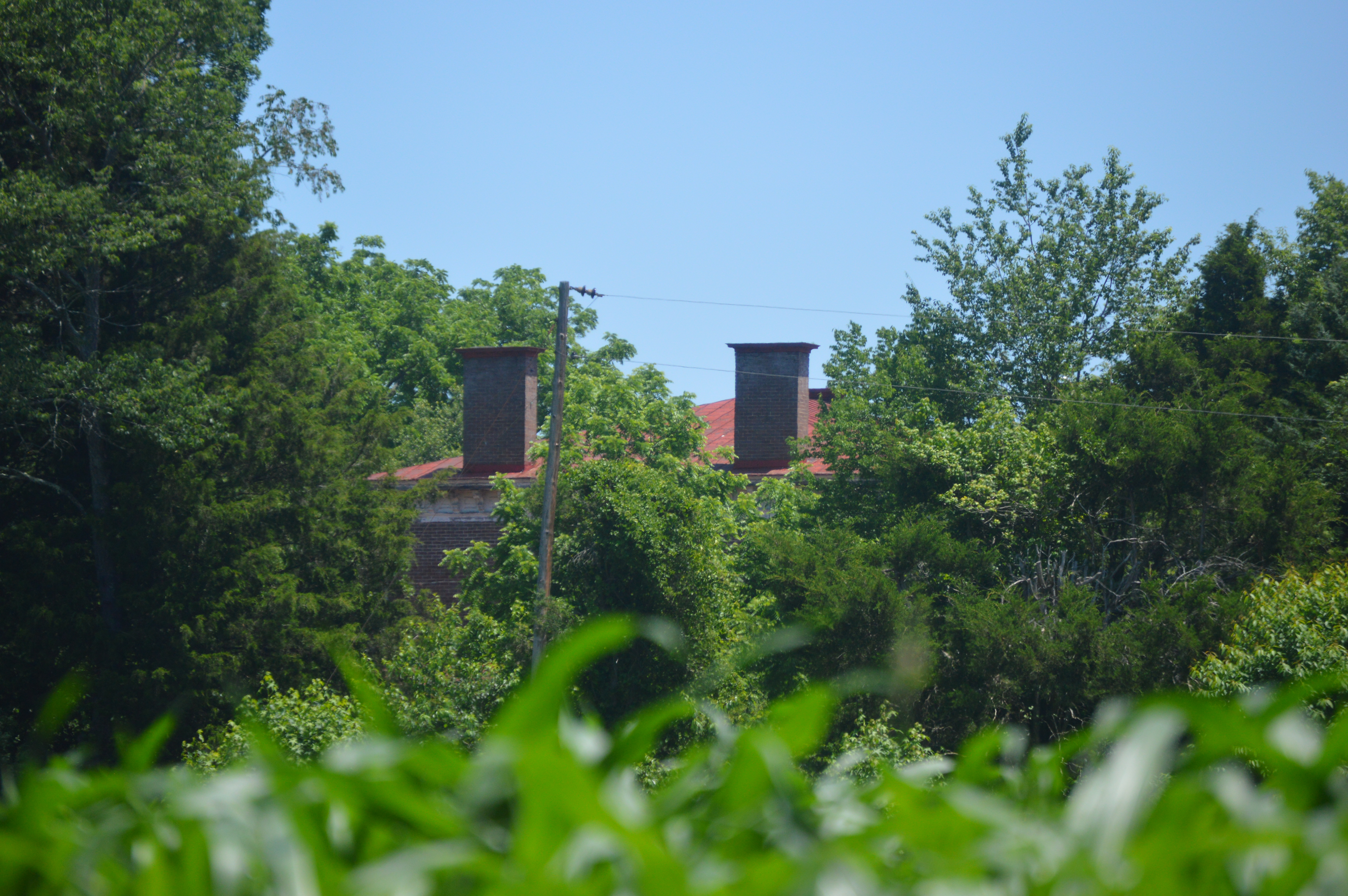 Over-the-corn view from Mountain Run Road of the Windsor farmhouse, located west of Danville in southernmost Pittsylvania County, Virginia, United States, just a couple of minutes' walk from the North Carolina border. Built in 1862, it is listed on the National Register of Historic Places.